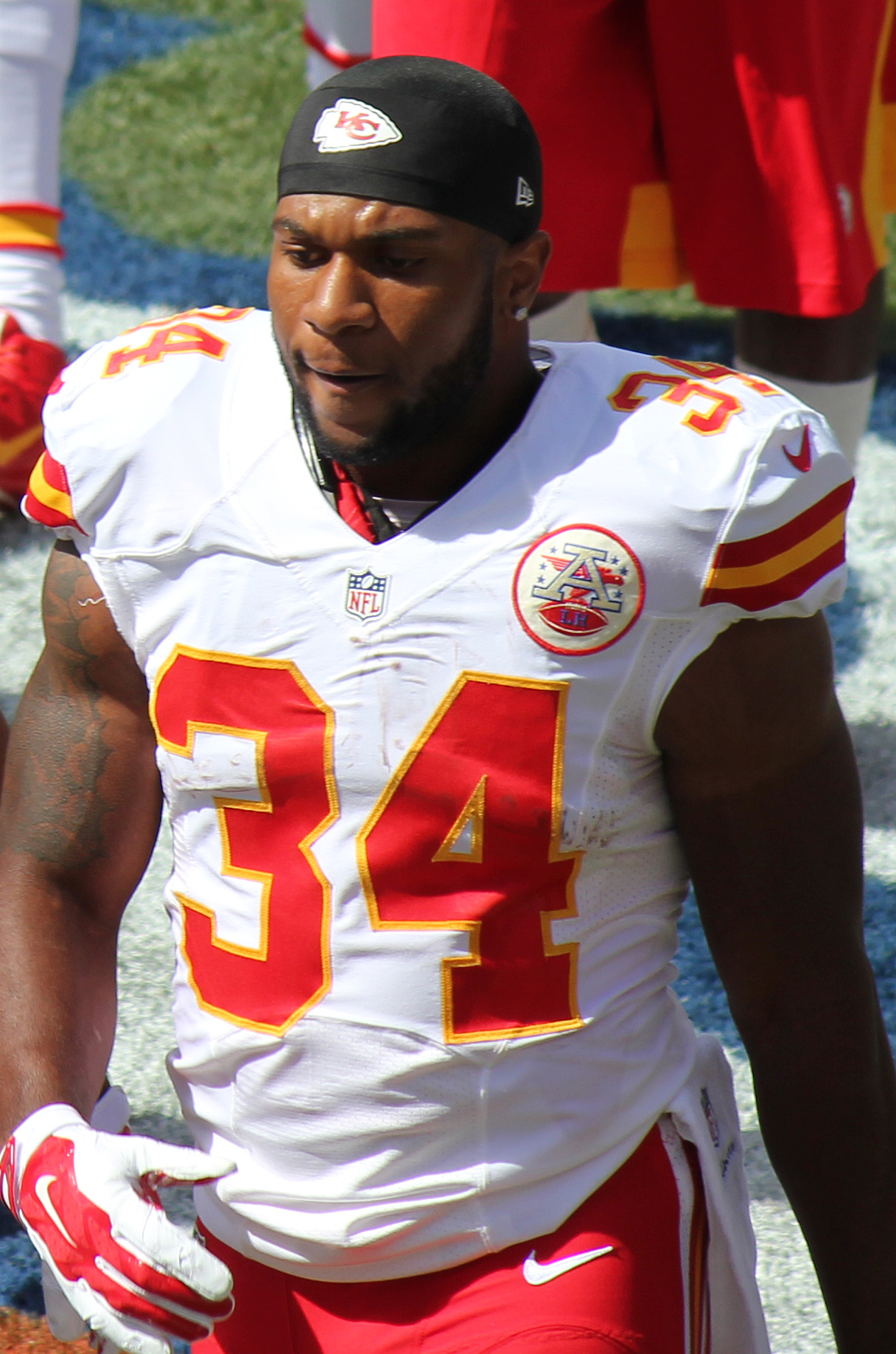 Knile Davis, a player on the National Football League.